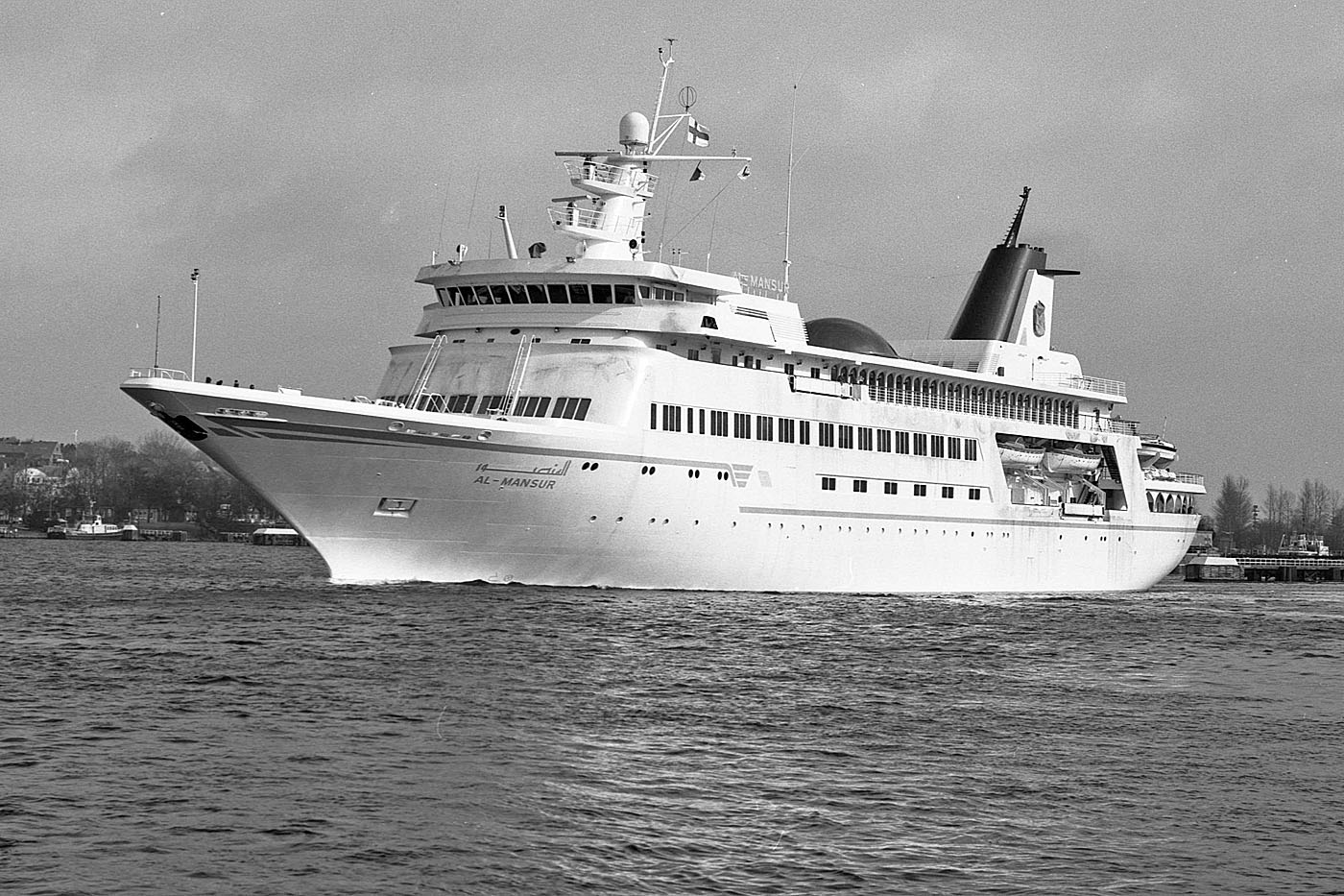 The yacht Al-Mansur of Saddam Hussein in 1982.